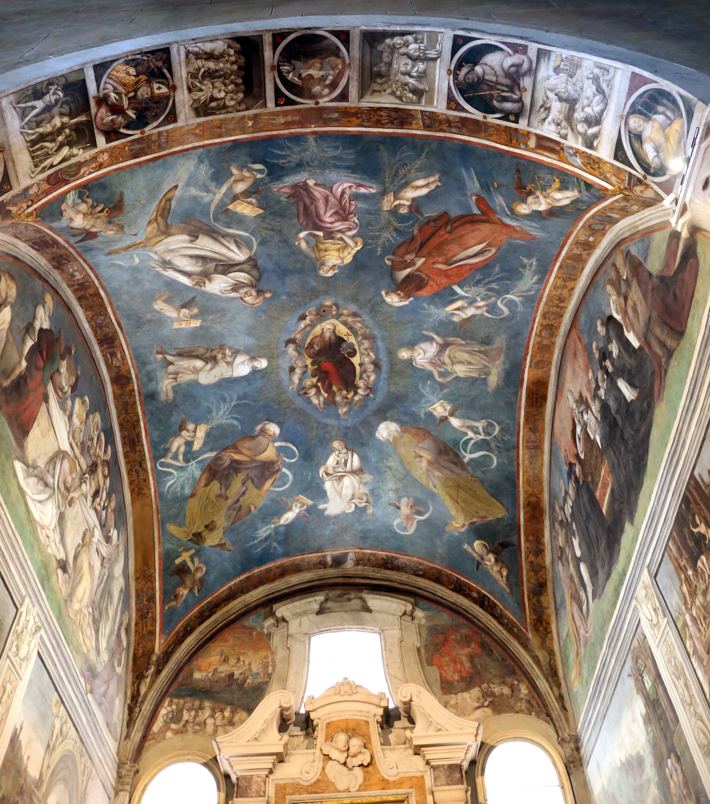 Cappella di Sant'Agostino (Lucca)